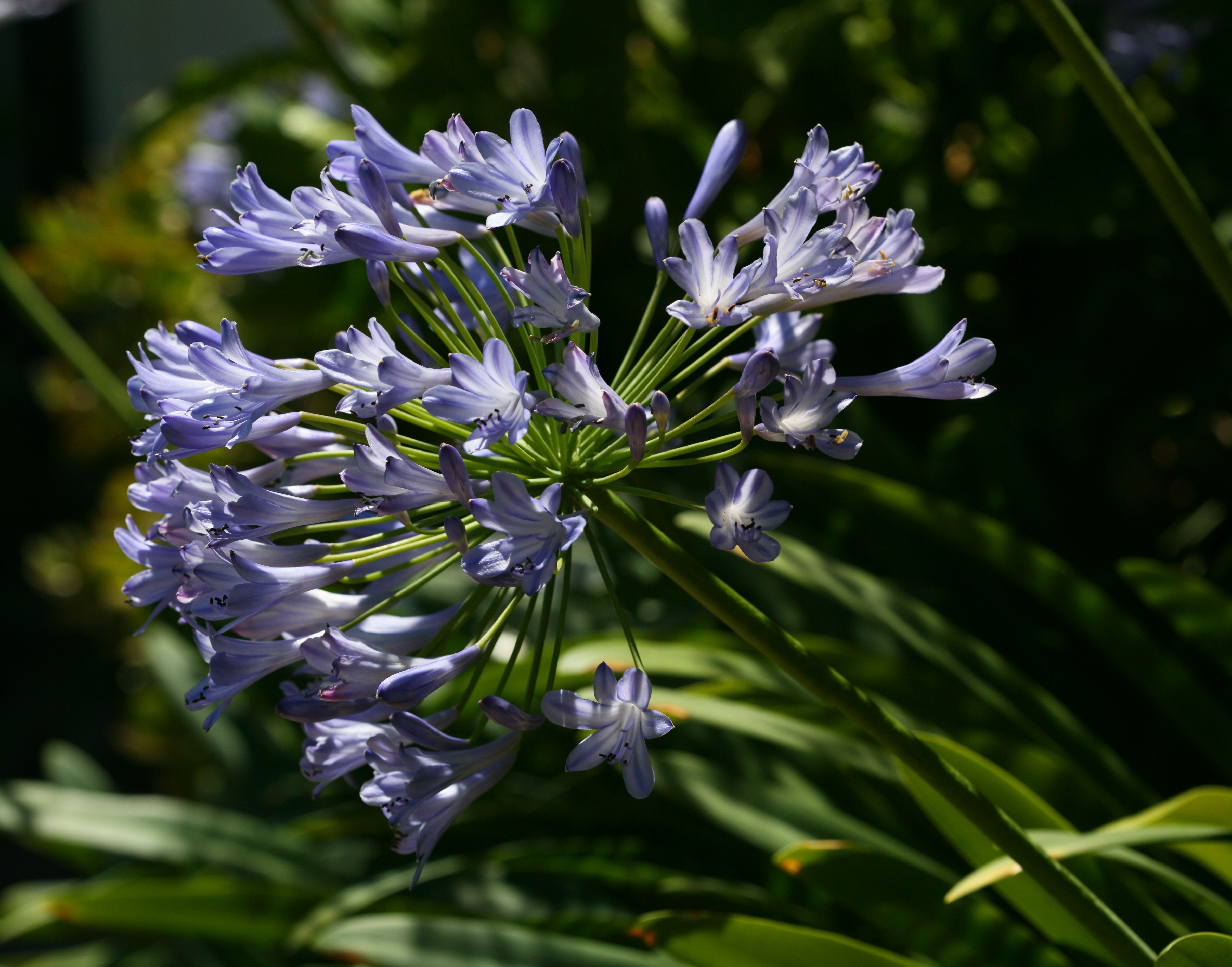 An Agapanthus flower arrangement after blooming.